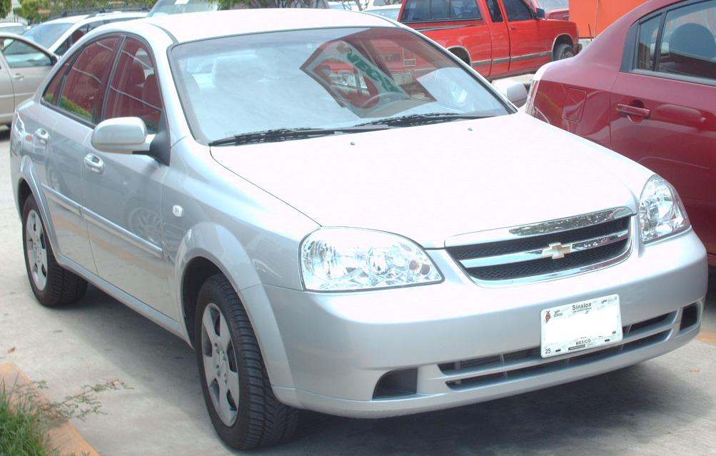 2006-present Chevrolet Optra photographed in Mazatlan, Sinaloa, Mexico.